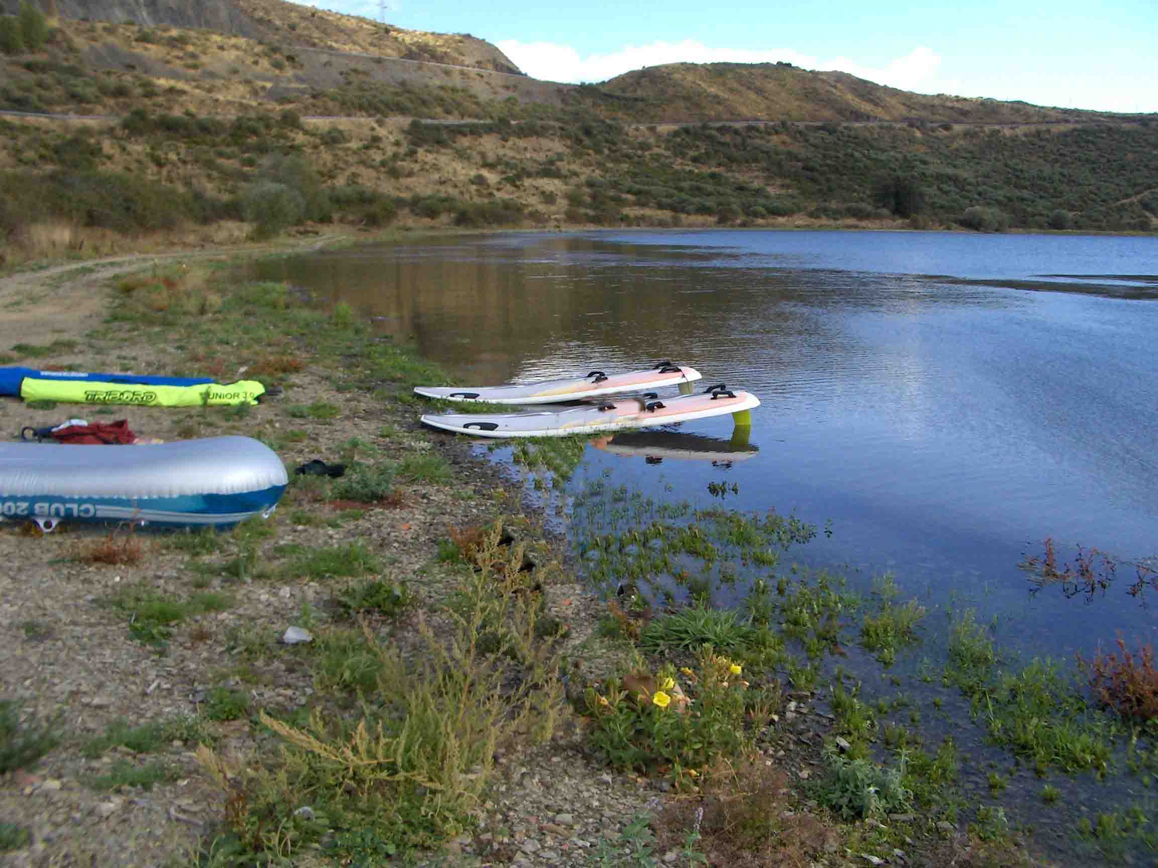 The Lake of Selga in the nearby of Santiago del Molinillo, Leon, Spain